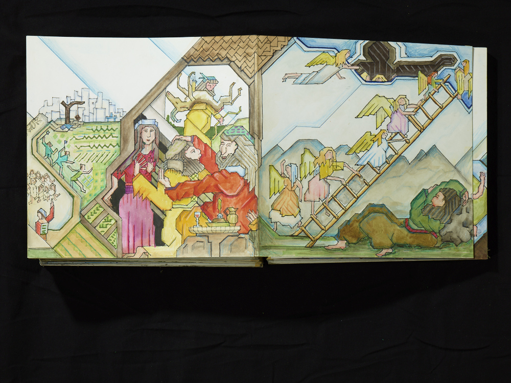 The World’s Longest Painted Bible Among his many professions, Willy Wiedmann worked as a church muralist. To him, the Biblical history was thus a theme that had long been familiar to him due to his work. Later in life, instead of realigning as an artist, he sought a new approach as well as a new challenge to his theme: He wanted to create the world’s longest painted Bible. He implemented this project over a course of 16 years — by means of meditative persistency and his scientific expertise.